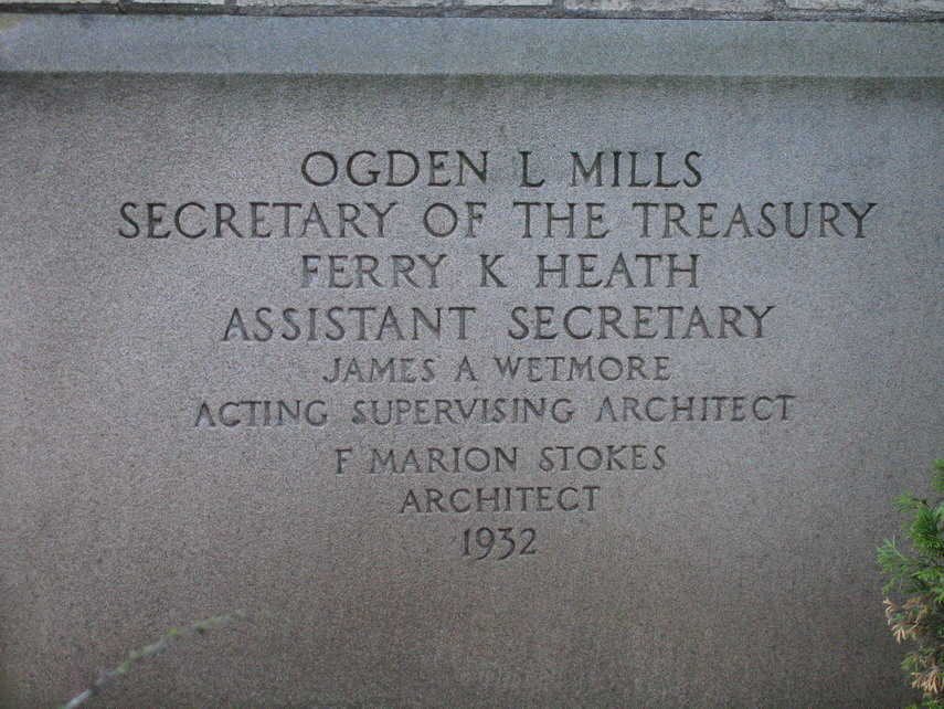 US Post Office - St Johns Station historical building in Portland, Oregon, USA (Cornerstone)